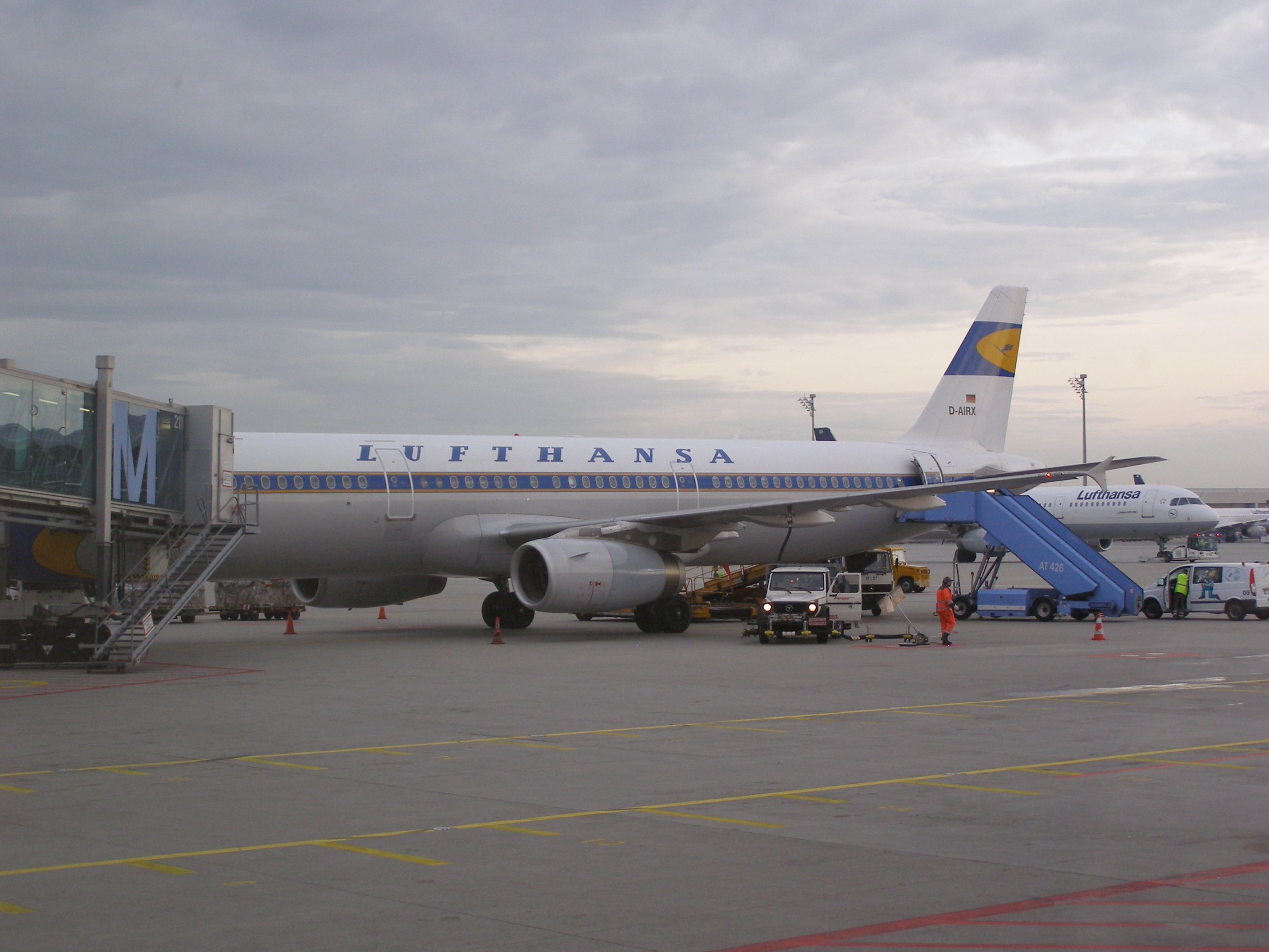 F.J. Strauss Airport in Munich (MUC) - Lufthansa Airbus A321 (D-AIRX) in a special retro livery